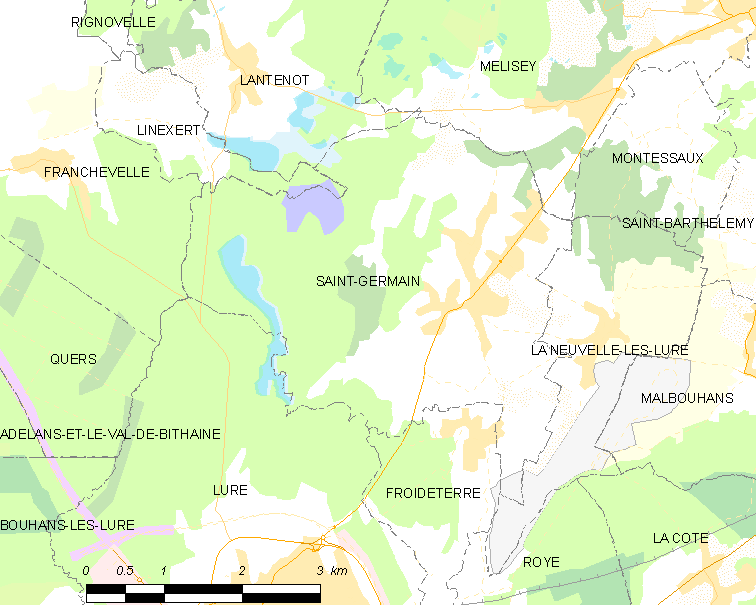 Map of French municipality